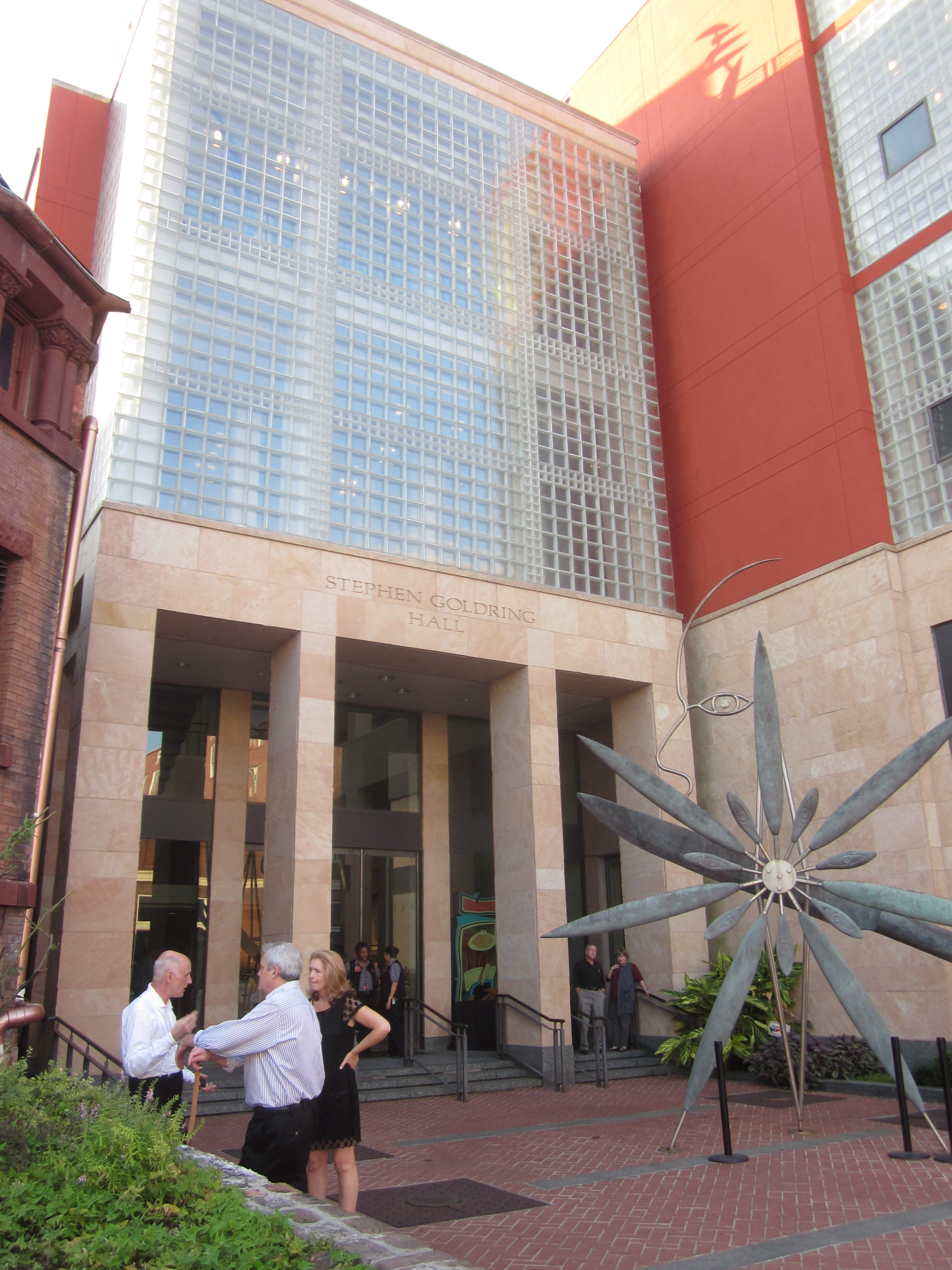 Ogden Museum, New Orleans. Main entrance.